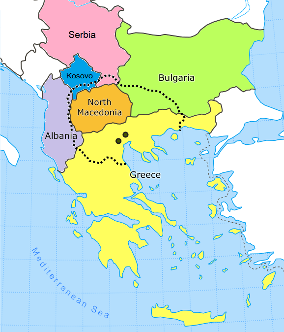 Macedonia region map wikipedia